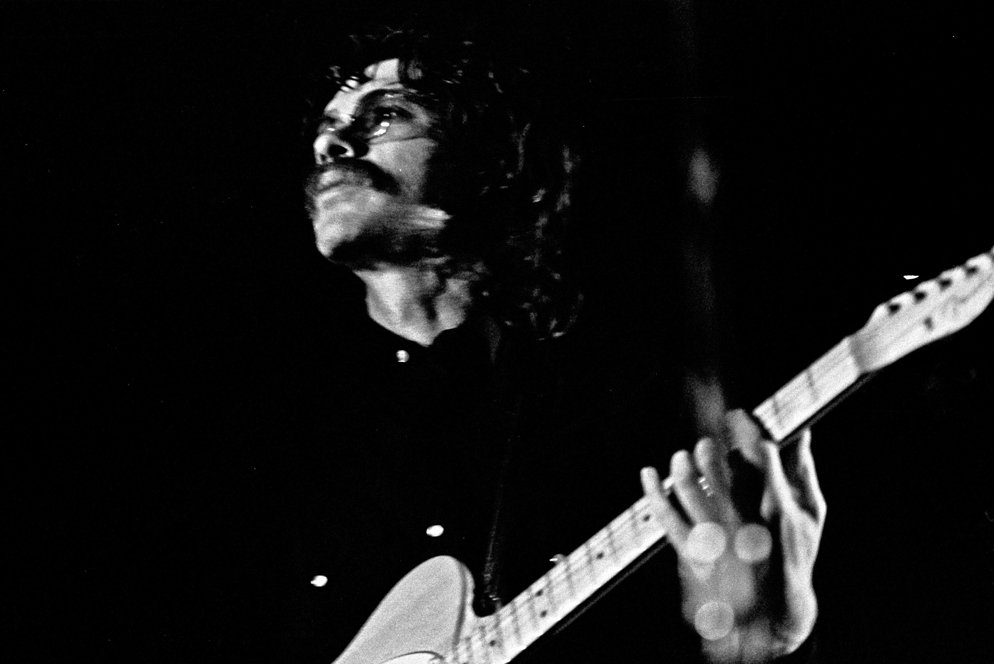 Robbie Robertson performing with The Band. Hamburg, May 1971.